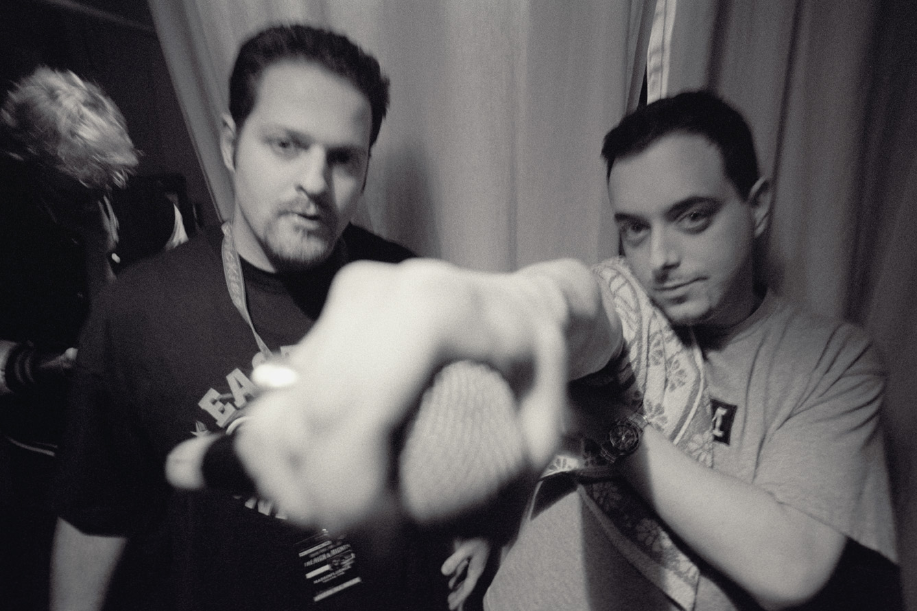 Germany 1998